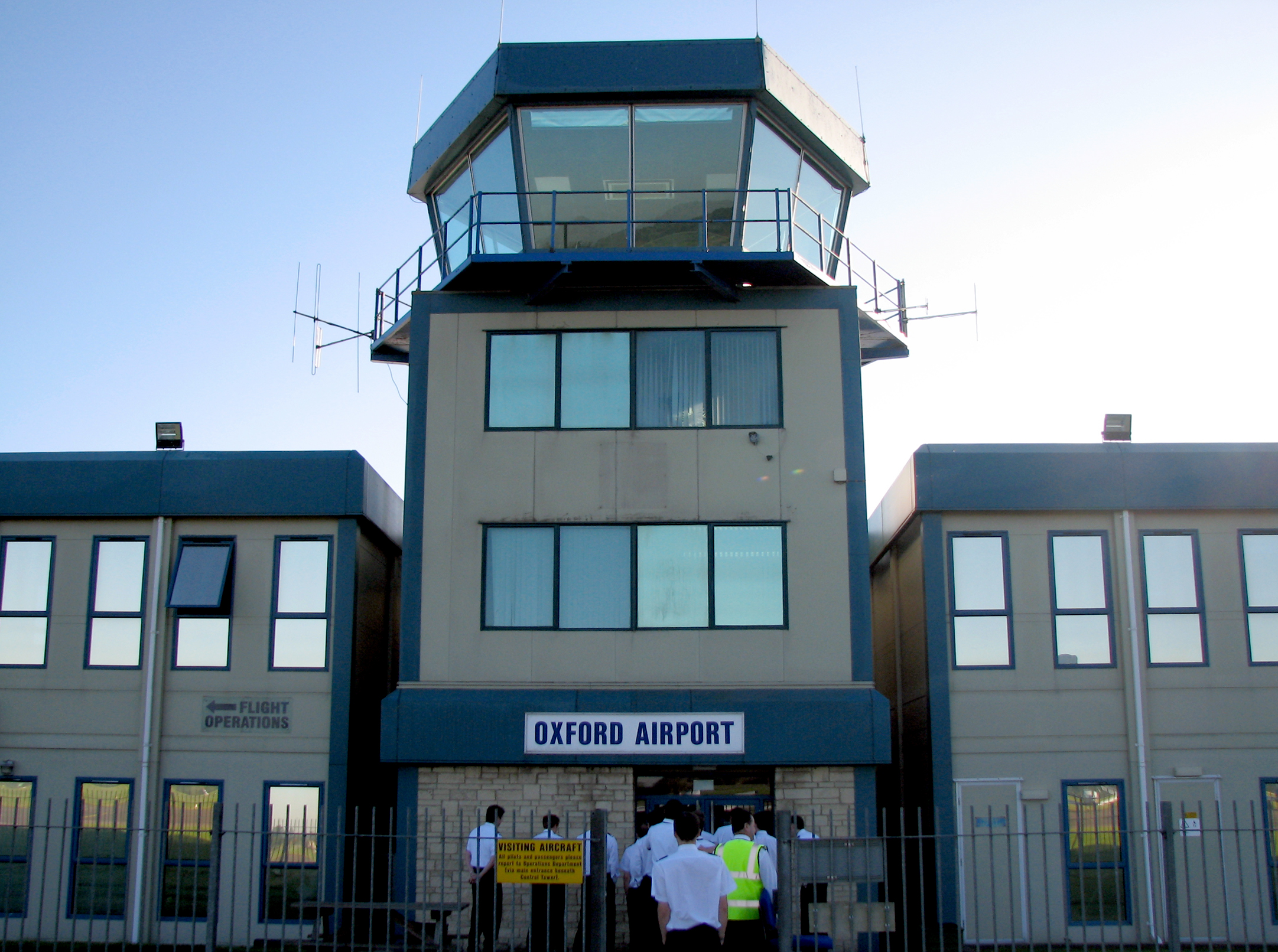 A view of the Air Traffic Control tower at Oxford Airport (ICAO: EGTK) taken on October 5th 2007 from the grassed area outside the main building.